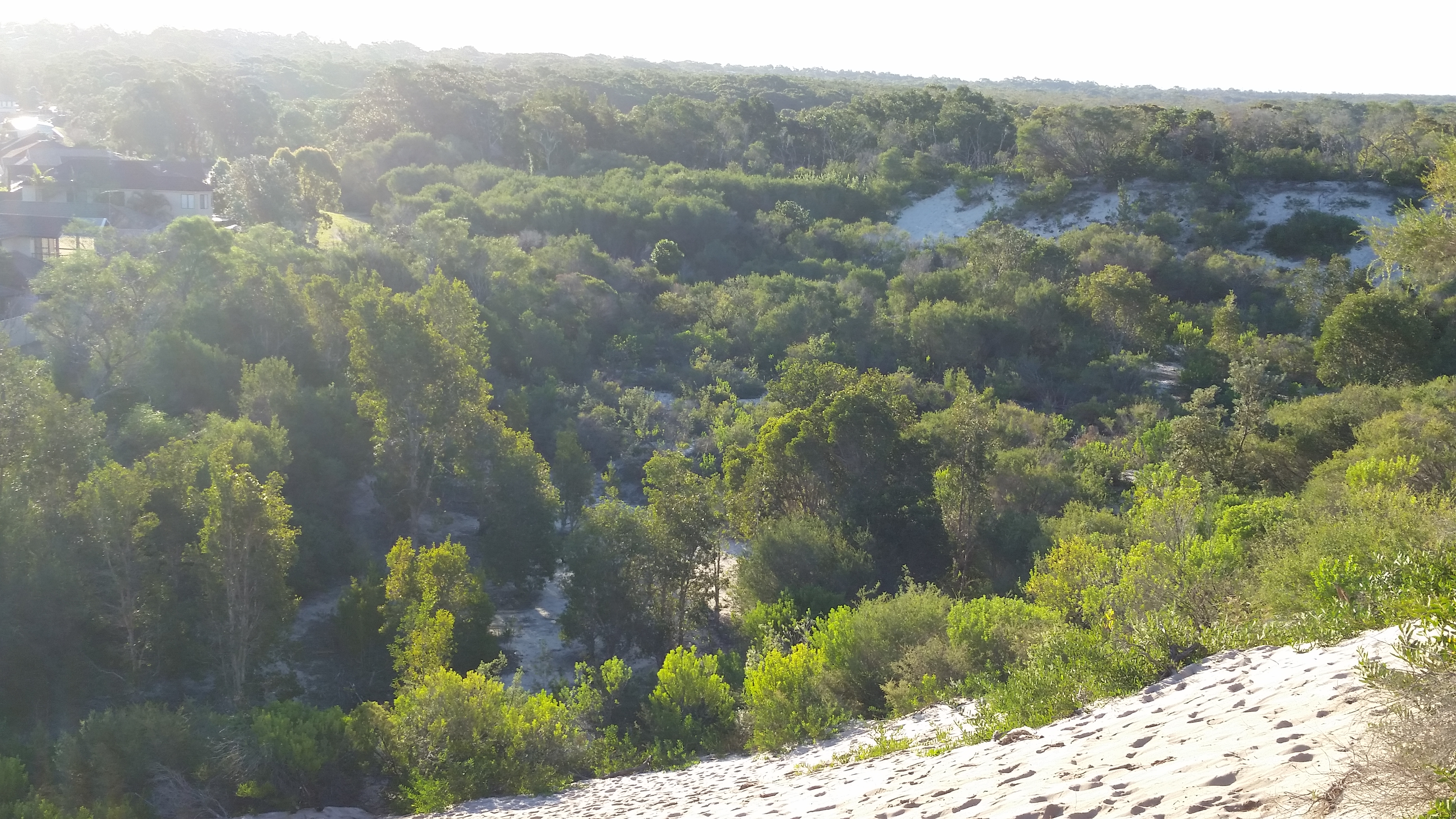 An overlook to the north-western end of the dune site.